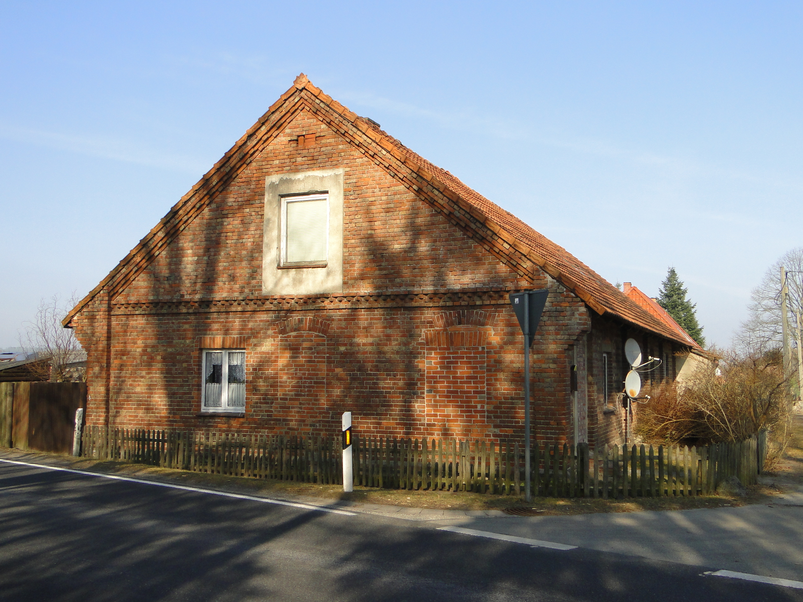 Building in Bossow, district Güstrow, Mecklenburg-Vorpommern, Germany